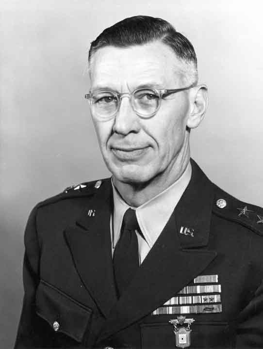 U.S. Army Major Genaral Holger N. Toftoy